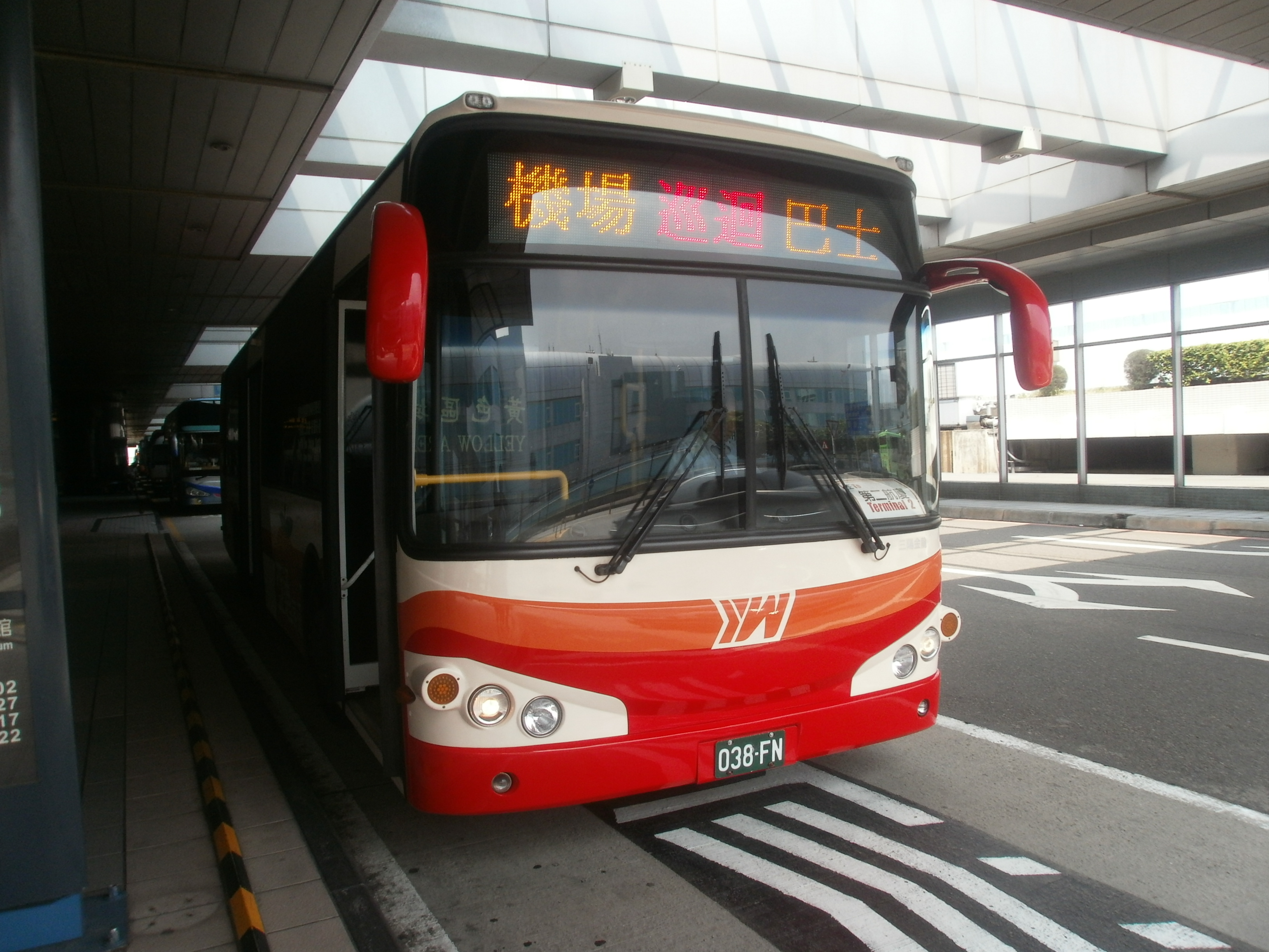 Orange Bus - Taoyuan Airport Inter-Hall bus.